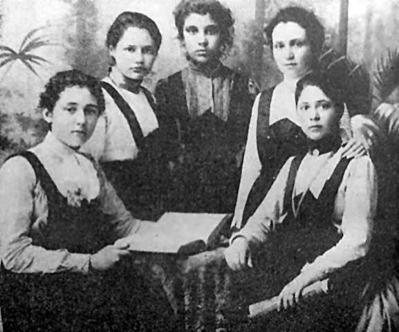 Lora Karavelova (1886-1913), future wife of Bulgarian poet Peyo Yavorov (1878-1914), seated first on the left with co-students